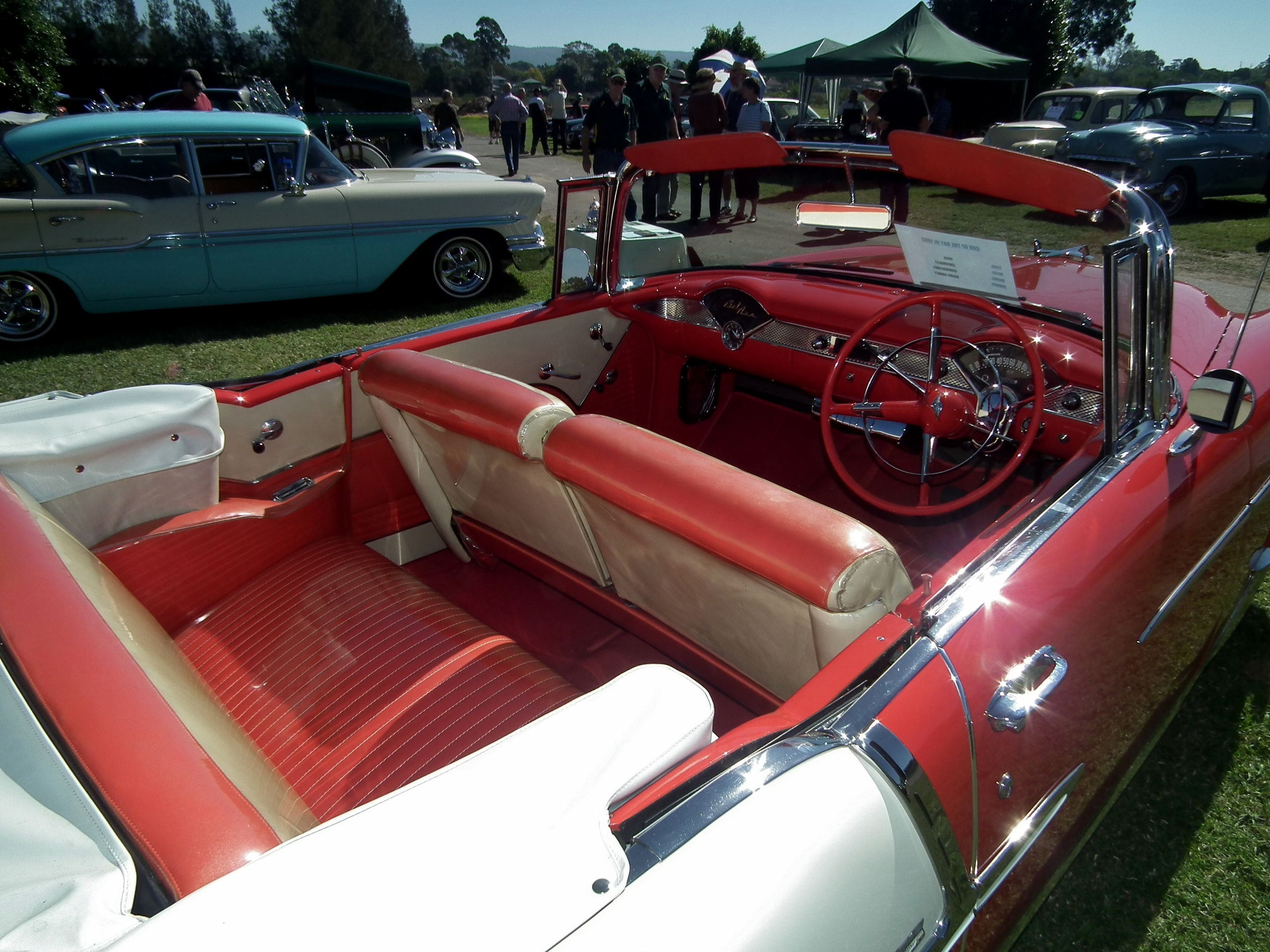 1955 Chevrolet Belair convertible interior. Taken at the 2013 General Motors Display Day, held in the grounds of Penrith Panthers Club, Penrith NSW.